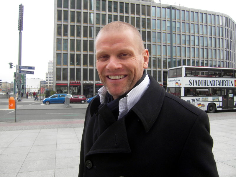 I met Bo Skovhus incidentally at the Potsdam Square in Berlin and asked permission to make a photograph